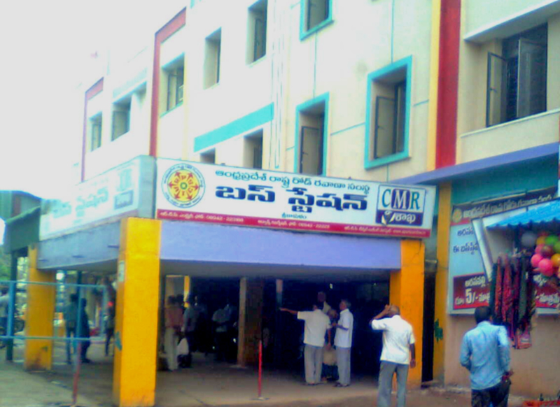 APSRTC Srikakulam Bus station entrance